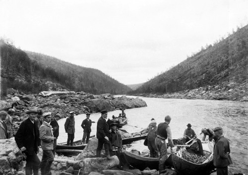 Gold mining area on the Ivalojoki River, Finland. A visit by Gustaf Esaias Fellman, the governor of the Oulu Province in 1898.